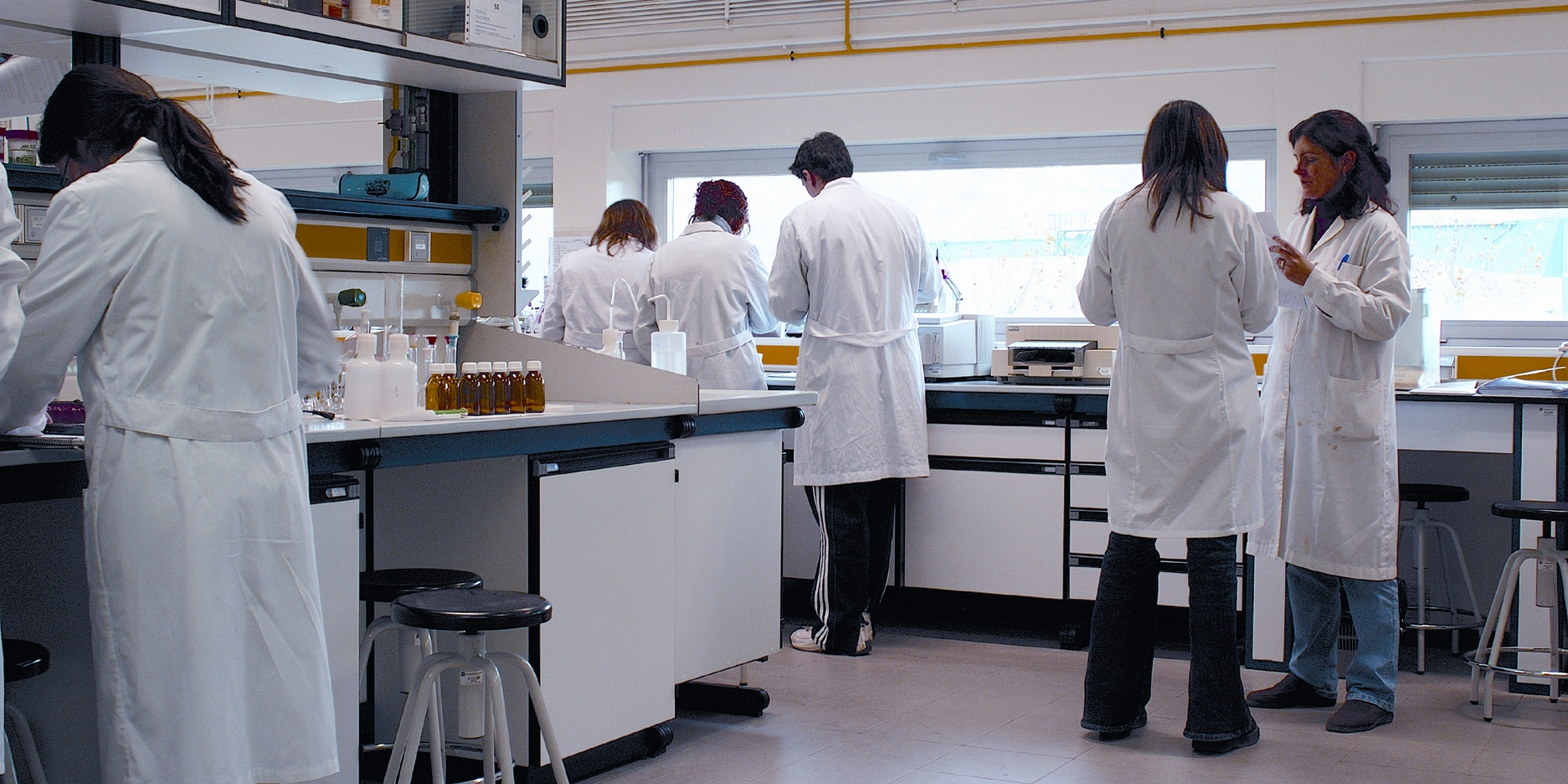 Scientists in a laboratory of the University of La Rioja.